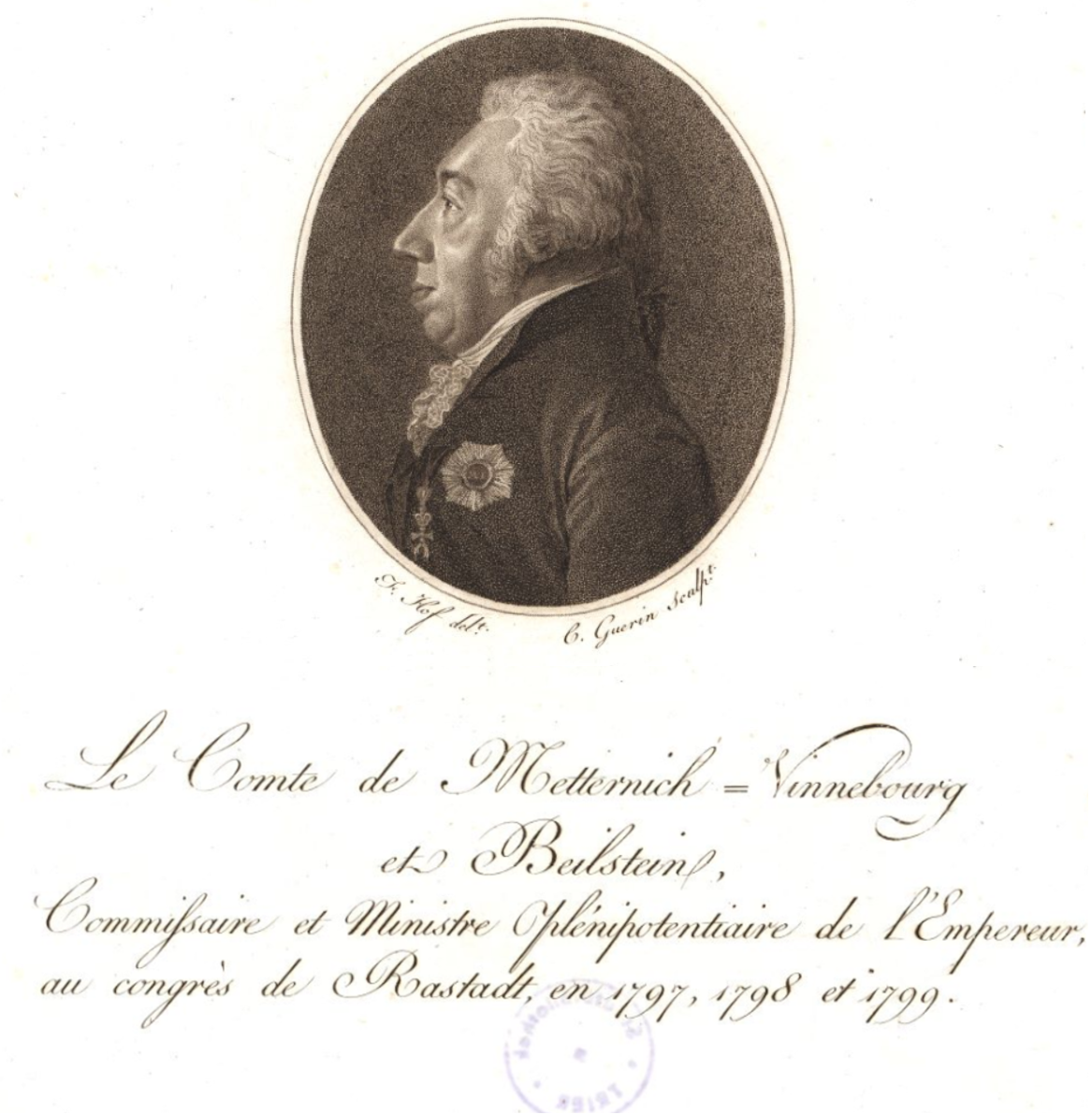 Cameo portrait of Franz Georg Karl von Metternich-Winneburg-Beilstein (1746-1818), diplomat and father of Klemens von Metternich, the Austrian statesman. This French-language print was issued in connection with the Congress of Rastatt (1797-1799). Franz George Karl Count Metternich was head of the imperial delegation at the Congress.